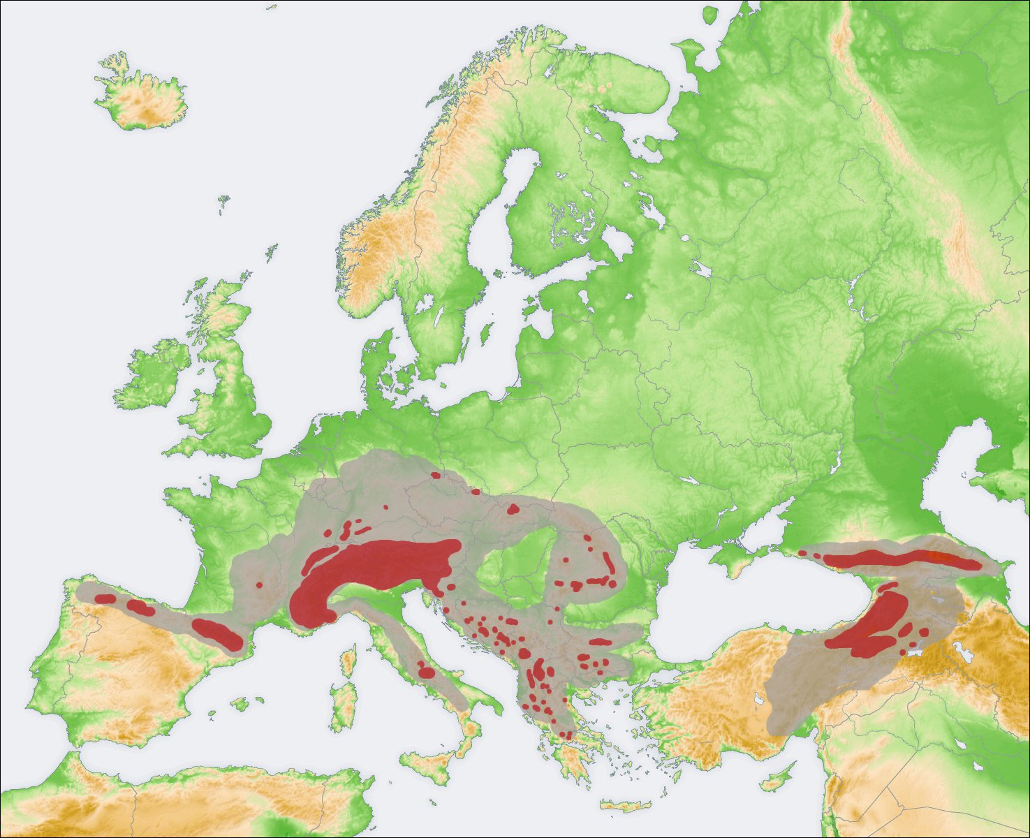 Holocene (grey) and present (red) range of the genus Rupicapra: Accoridng to Aulagnier, S., Giannatos, G. & Herrero, J. 2008. Rupicapra rupicapra. In: IUCN 2011. IUCN Red List of Threatened Species. Version 2011.2. . Downloaded on 06 May 2012. Herrero, J., Lovari, S. & Berducou, C. 2008. Rupicapra pyrenaica. In: IUCN 2011. IUCN Red List of Threatened Species. Version 2011.2. . Downloaded on 06 May 2012. Bunzel-Drüke, M., Böhm, C., Finck, P., Kämmer, G., Luick, R., Reisinger, E., Riecken, U., Riedl, J., Scharf, M., Zimball, O. (2008). Wilde Weiden - Praxisleitfaden für Ganzjahresbeweidung in Naturschutz und Landschaftsentwicklung. Arbeitsgemeinschaft Biologischer Umweltschutz im Kreis SOest e.V., Bad Sassendorf-Lohne ISBN 978-3-00-024385-1 Holocene range extended to the north according to Ronald M. Nowak: Walker’s Mammals of the World. 6. Auflage. The Johns Hopkins University Press, Baltimore/London 1999, ISBN 0-8018-5789-9